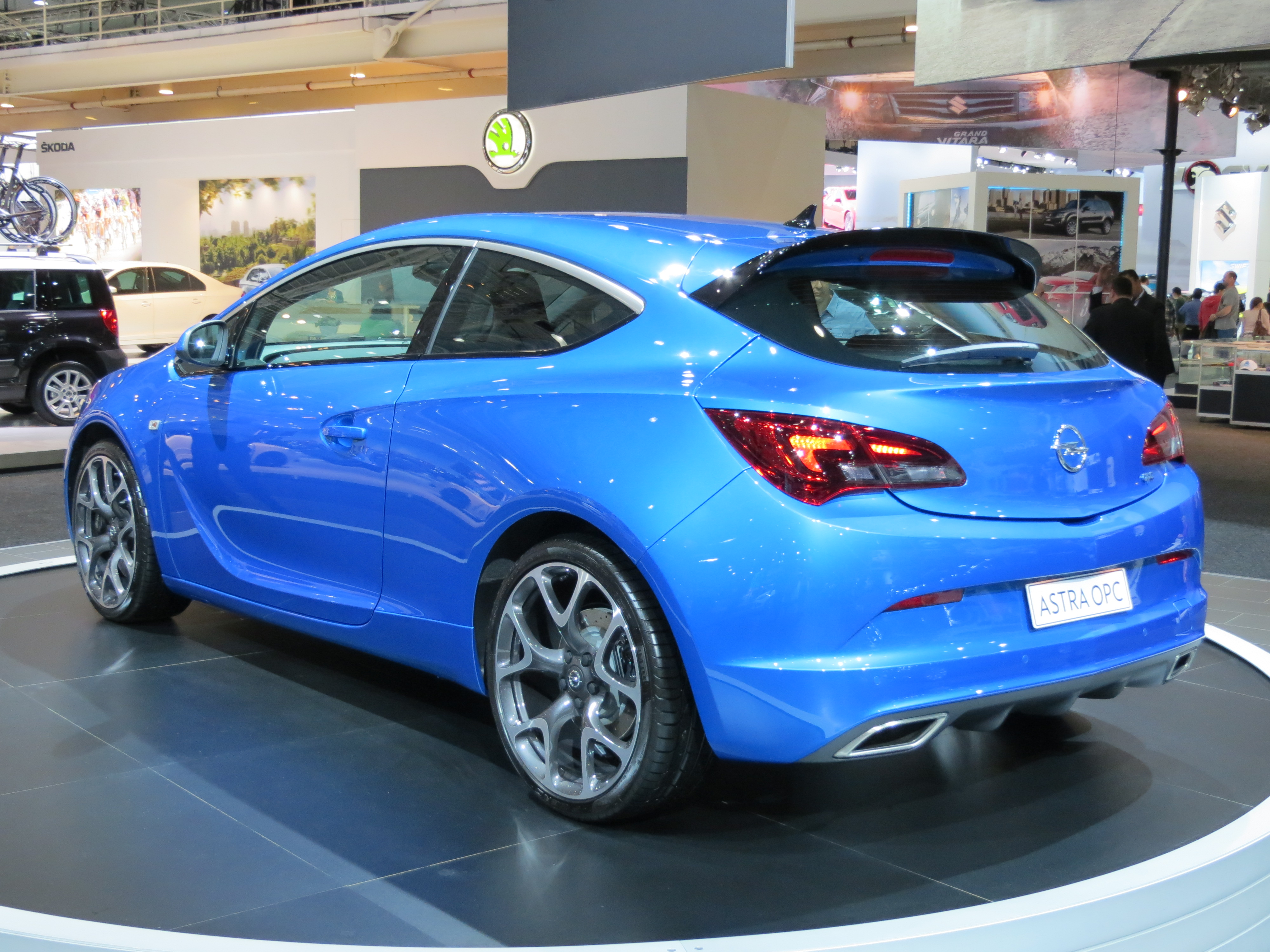 2012 Opel Astra (AS) OPC 3-door hatchback. Photographed at the 2012 Australian International Motor Show, Sydney, New South Wales, Australia.